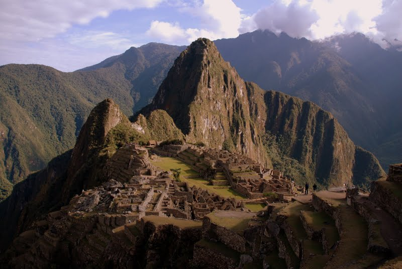 Machu Picchu